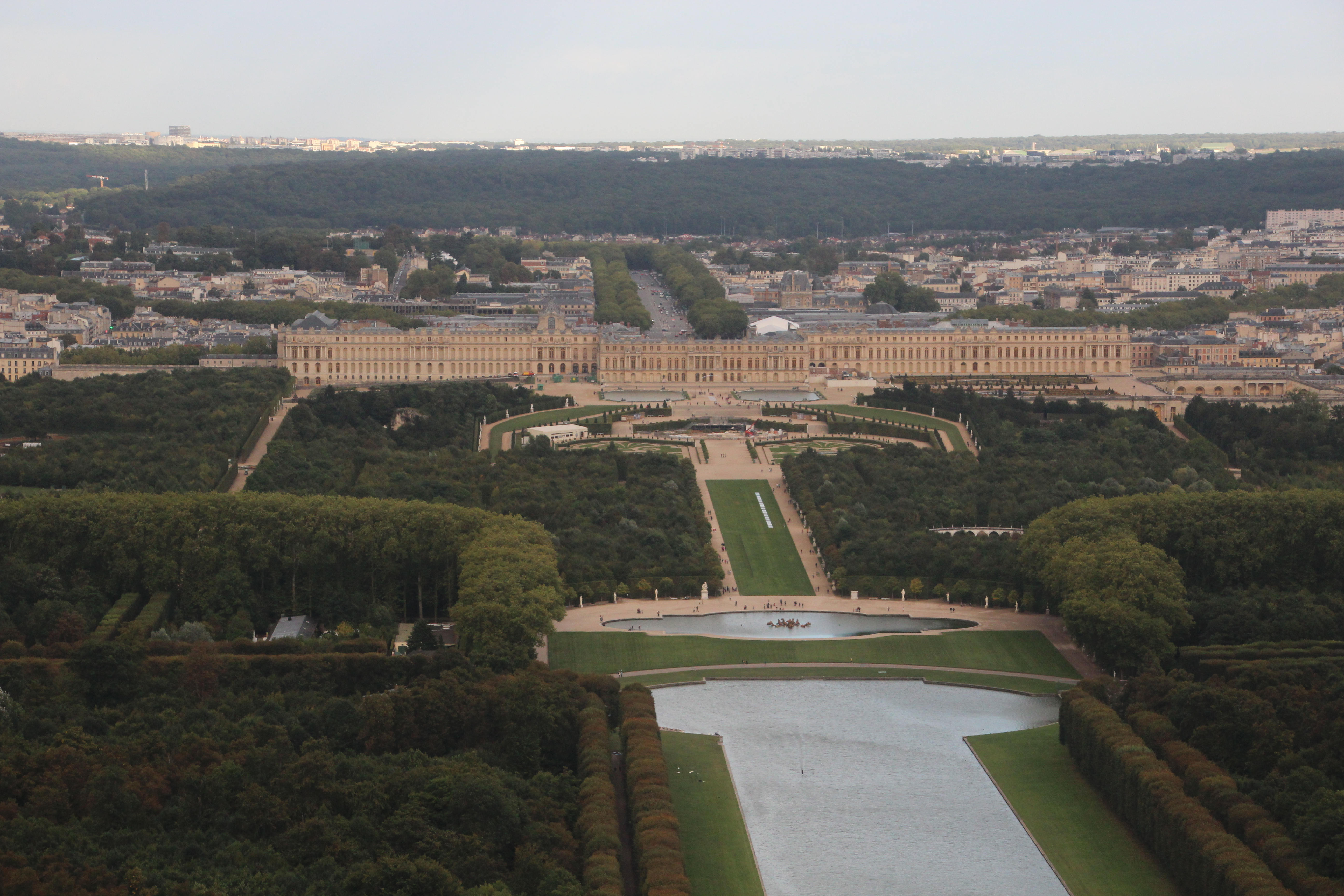 Aerial view of the Palace of Versailles, France.